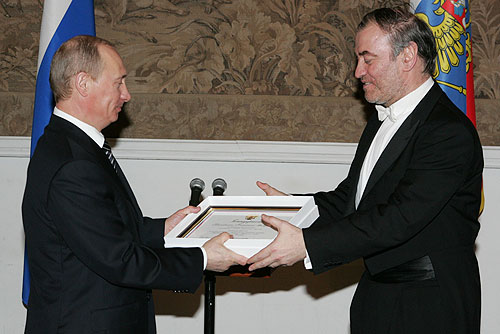 MARIINSKY THEATRE, ST PETERSBURG. Mariinsky Theatre Artistic Director Valery Gergiev receiving the President's thanks to the theatre and its troupe.